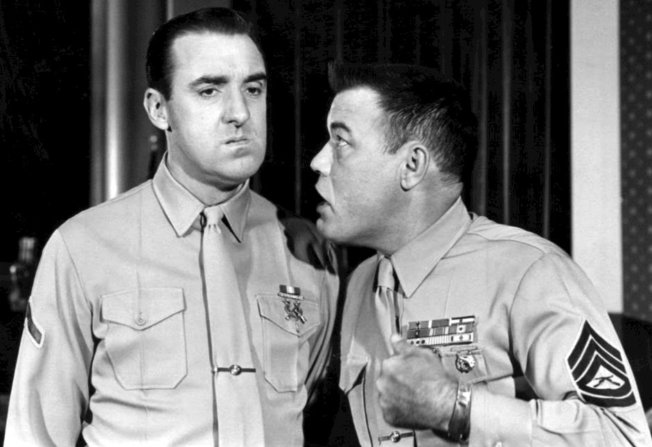 Publicity photo of Jim Nabors and Frank Sutton from the television program Gomer Pyle USMC.